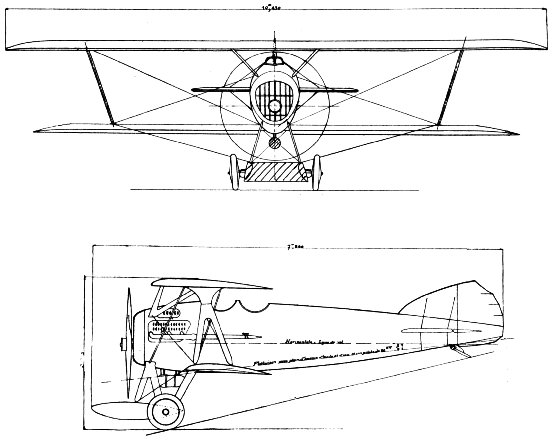 Bleriot SPAD S.39 2-view drawing fromL'Aéronautique September 1921